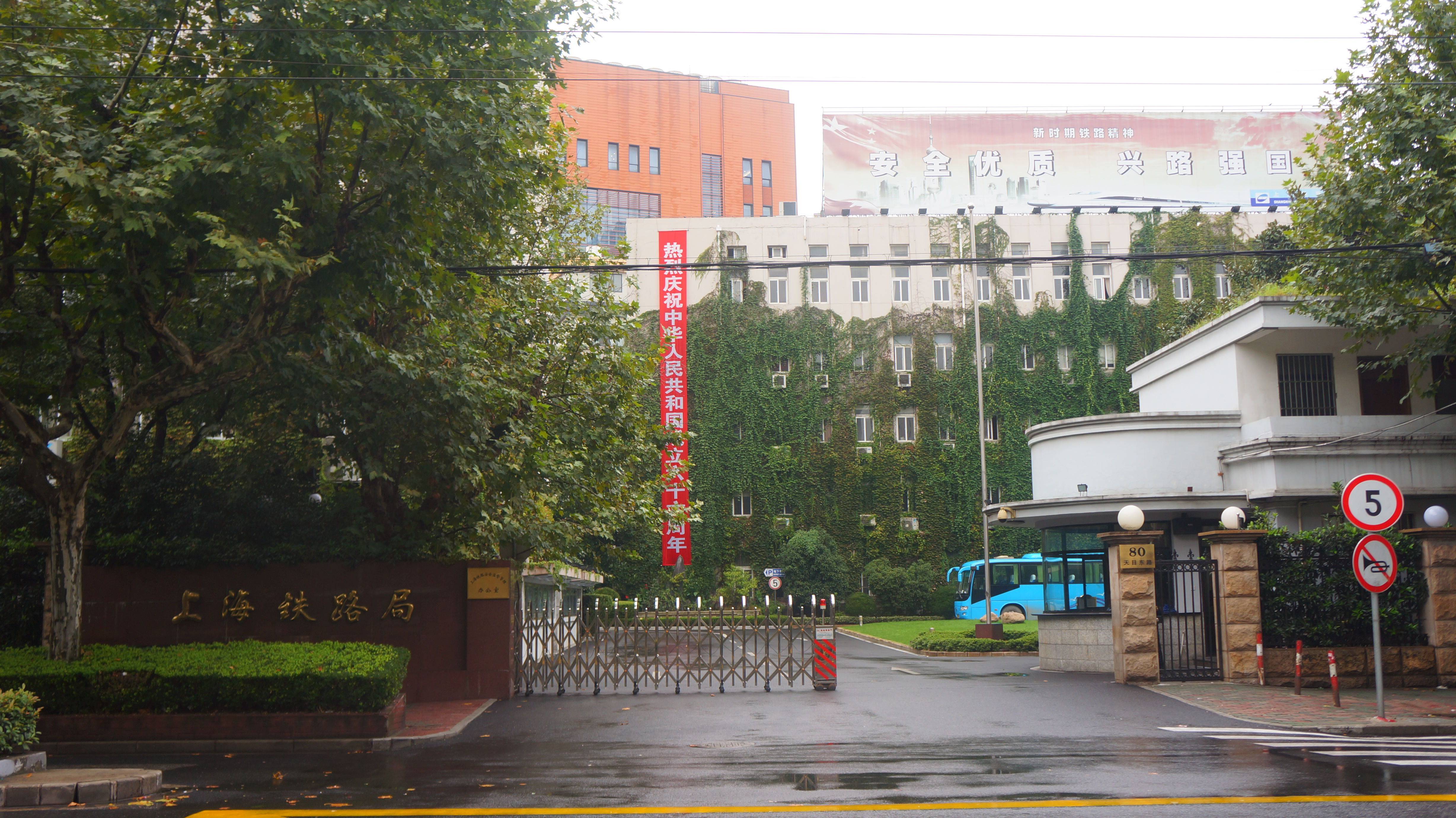 Gate of The Shanghai Railway Bureau